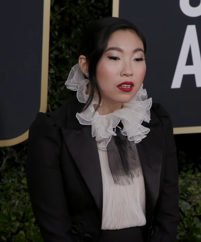 Awkwafina at the Golden Globes red carpet